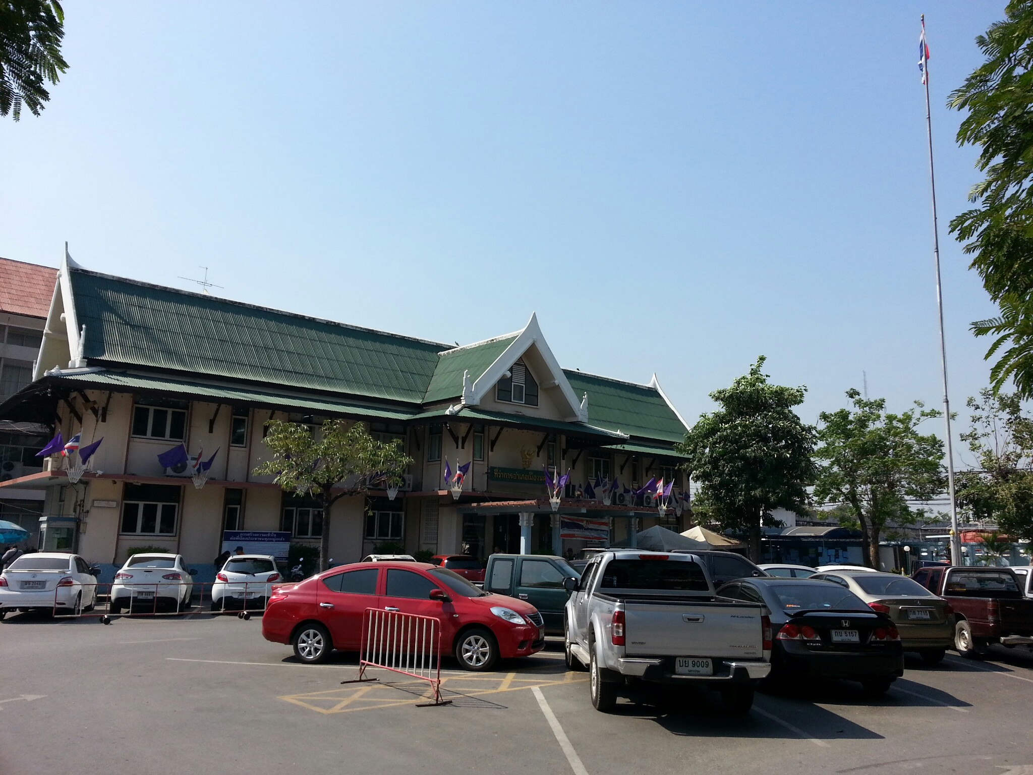 Muang Nakhon Pathom District Office. Phra Prathom Chedi, Mueang Nakhon Pathom District, Nakhon Pathom 73000, Thailand